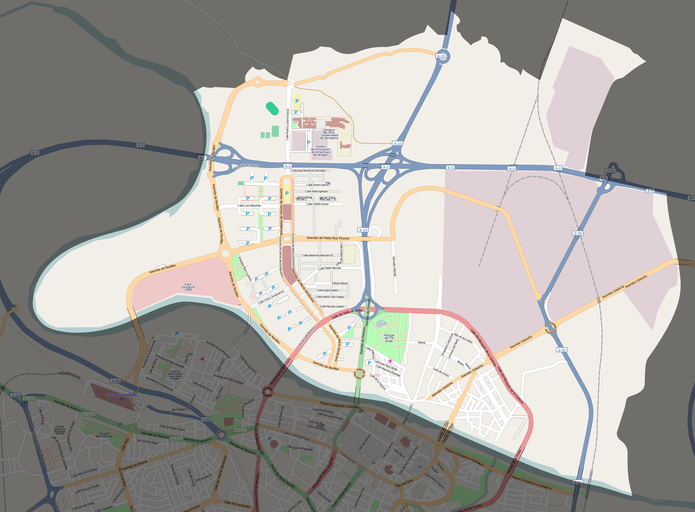 This map may be incomplete, and may contain errors. Don't rely solely on it for navigation.